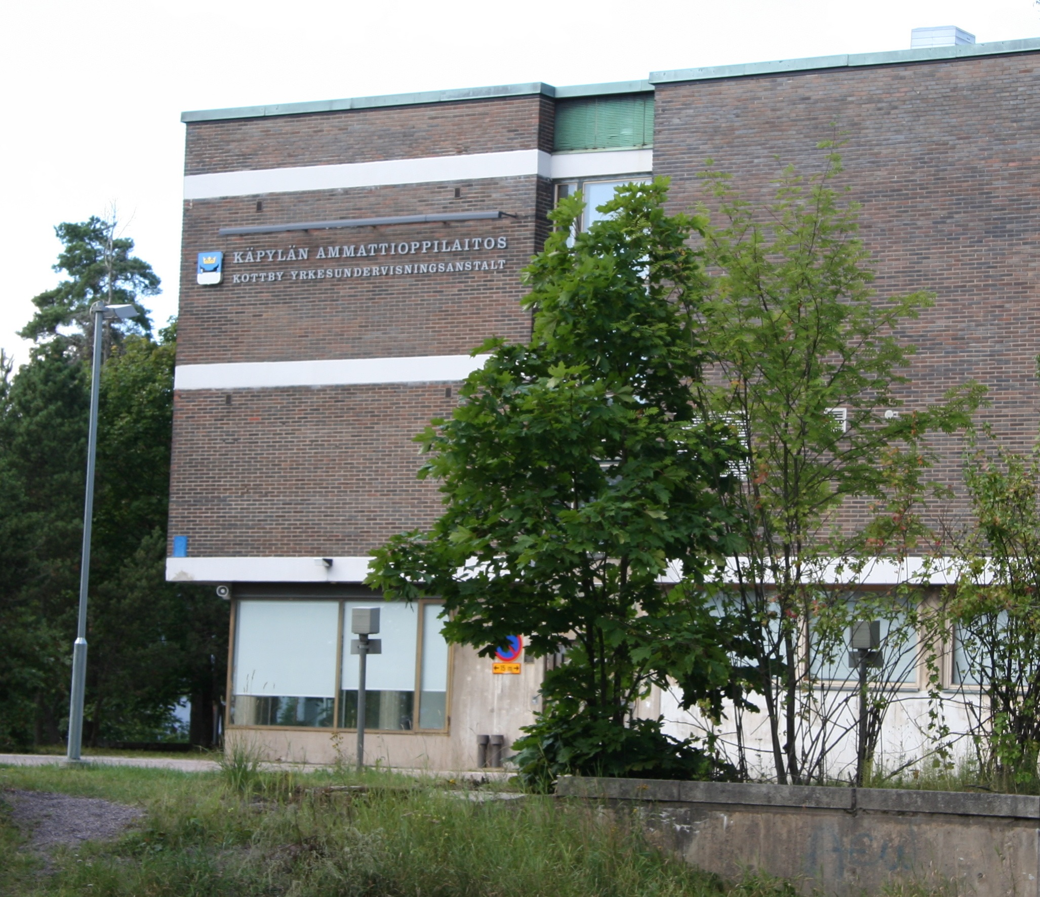 Vocational (tech) school in Käpylä, Helsinki